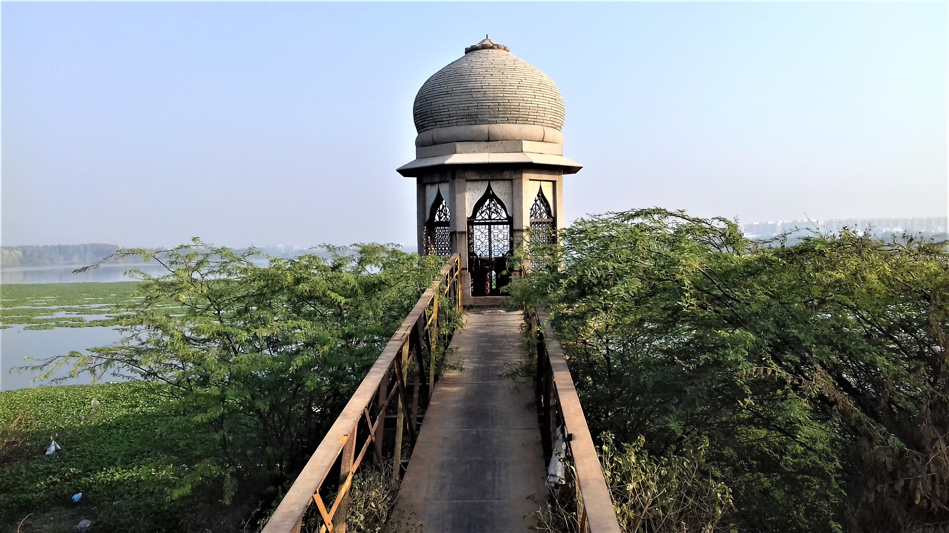 present photo of water contolling tomb of fox sagar.